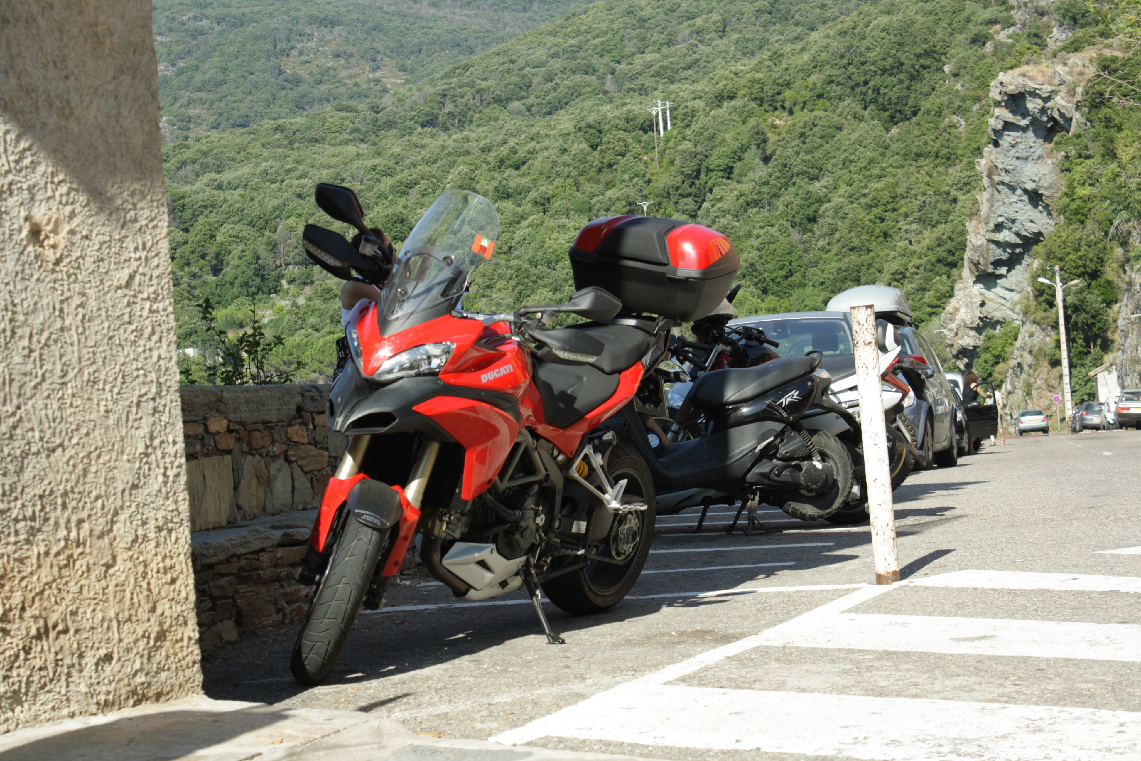 Ducati 1200 Multistrada